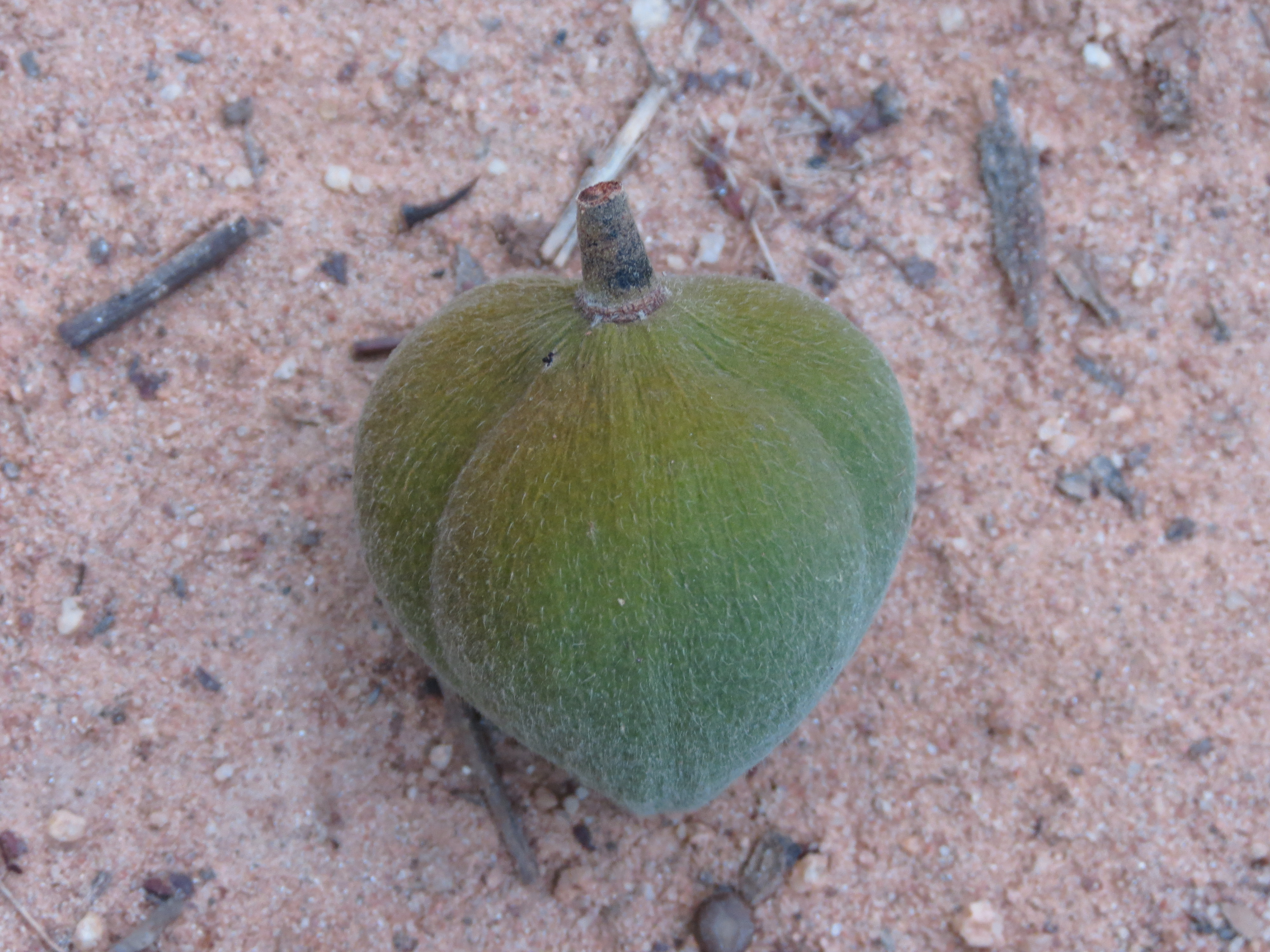 Reutealis trisperma also known as Philippine tung tree seen in Cubbon park Bangalore.